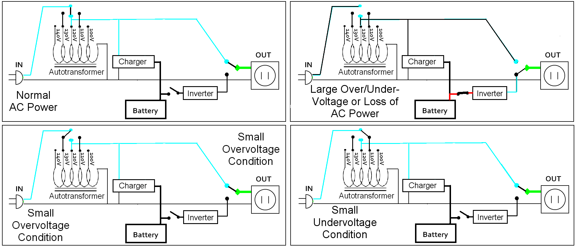 Line-Interactive UPS Diagram